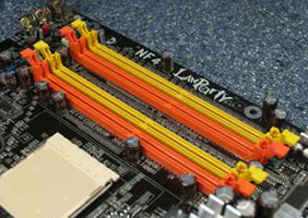 Dual channel memory slots on DFI LanParty NF4 motherboard